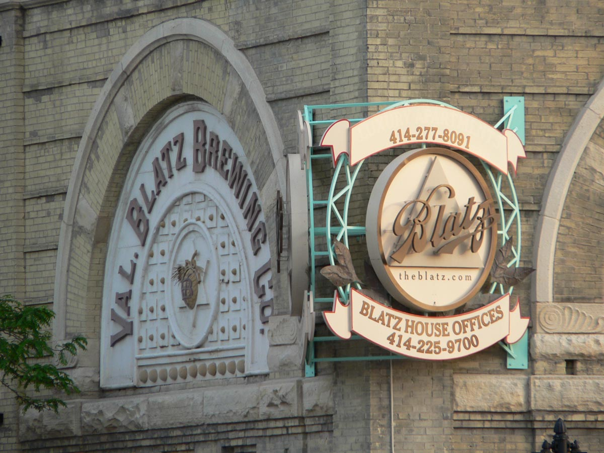 Copyright © 2006 Sulfur Building detail from the Valentin Blatz Brewing Company Complex in downtown Milwaukee, Wisconsin.